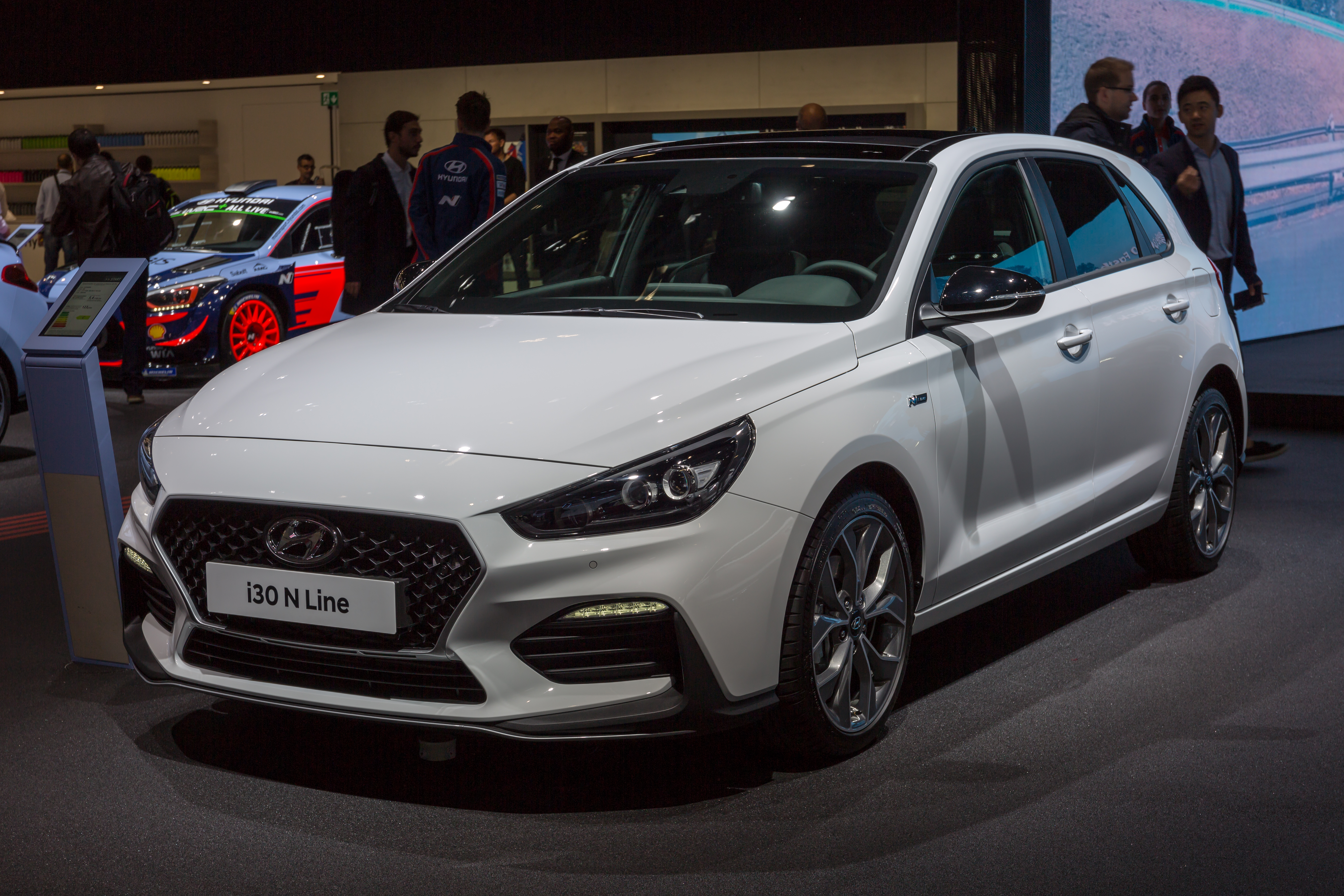 Hyundai i30 N-Line at Mondial Paris Motor Show 2018